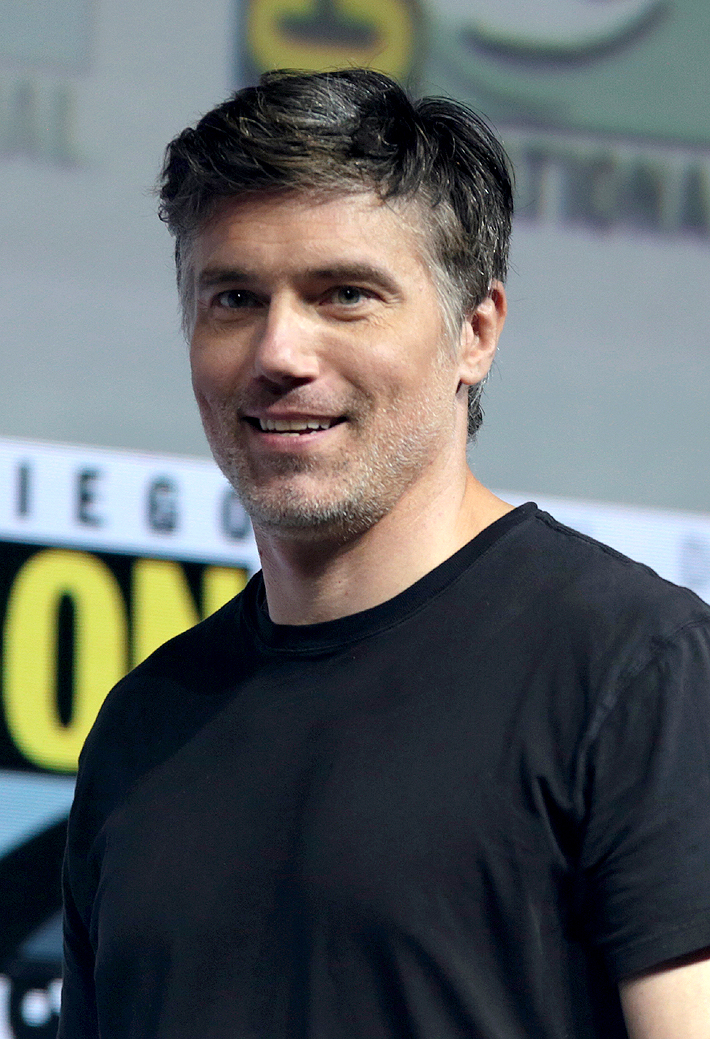 Anson Mount speaking at the 2018 San Diego Comic-Con International in San Diego, California.